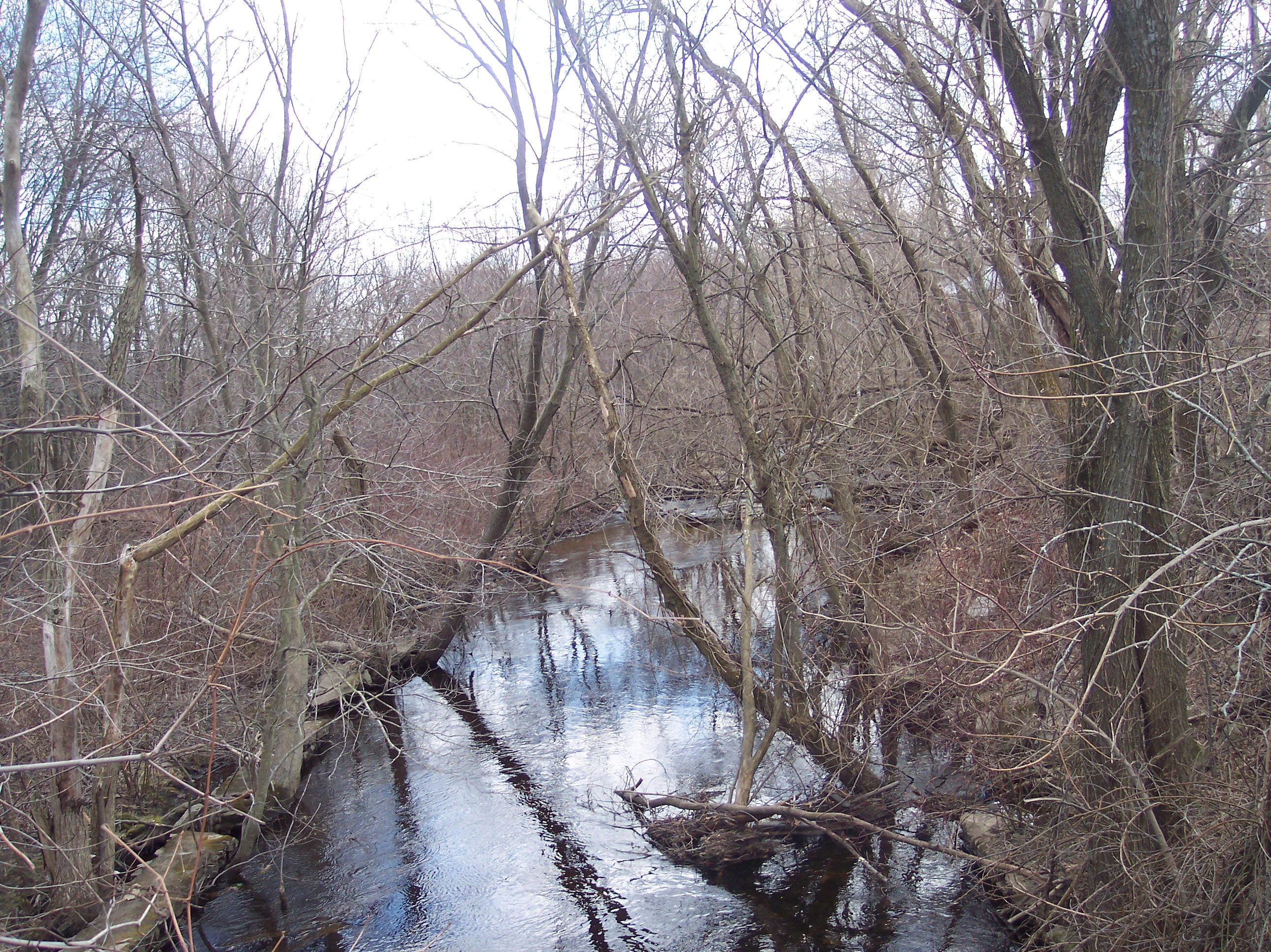 The Peters River in Woonsocket, Rhode Island. Self-taken photo.